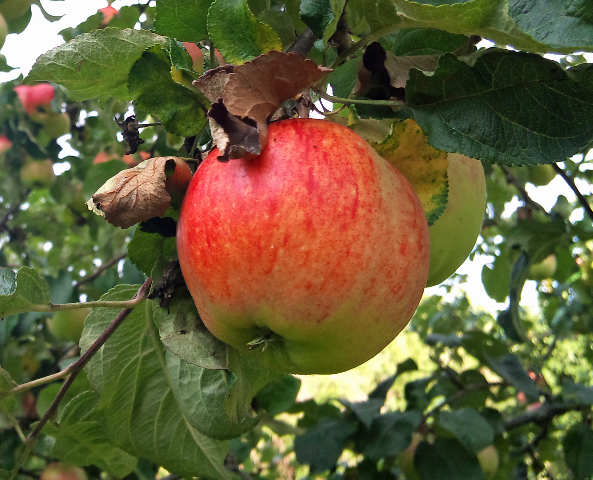 A Swedish apple variety.